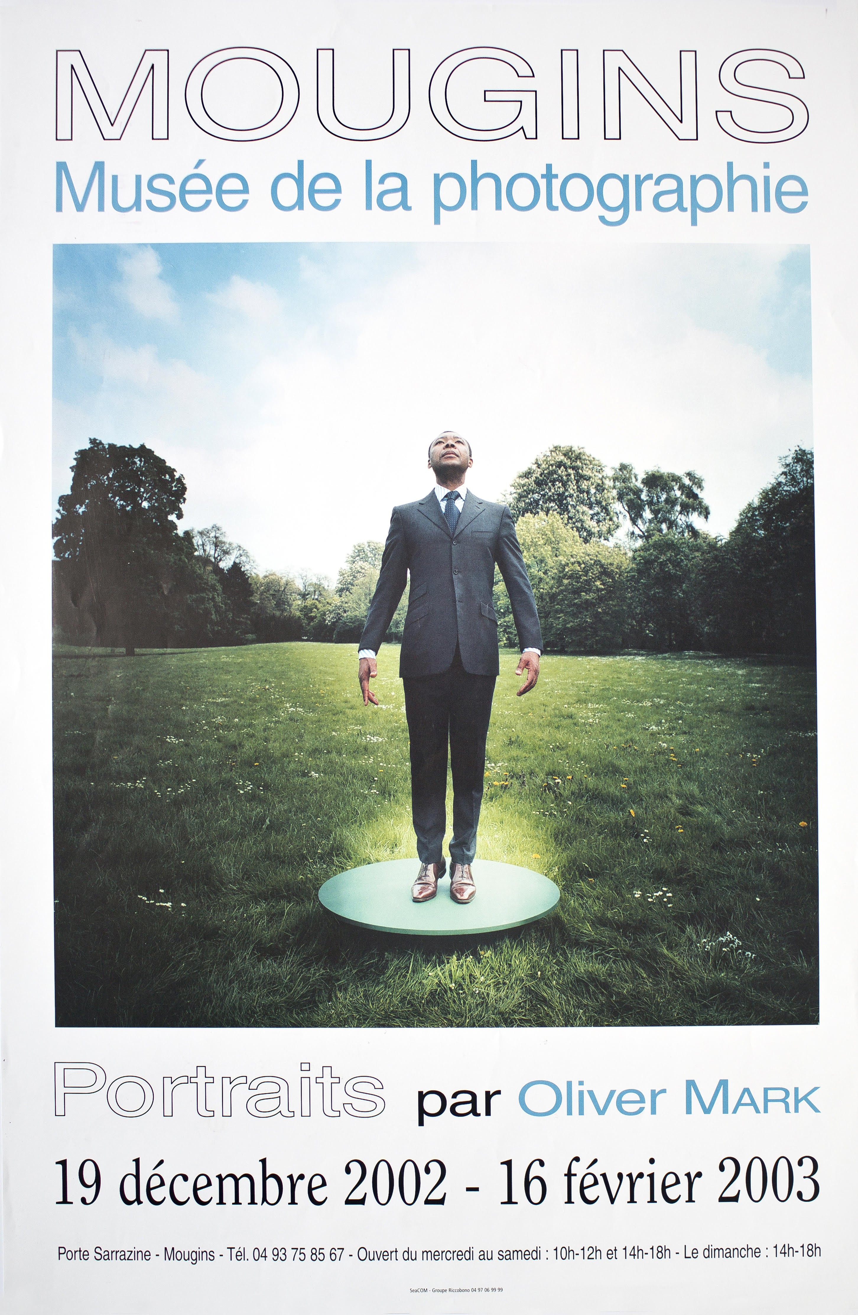 Poster of the Oliver Mark exhibition Portraits, Musée de la photographie, Mougins 2002